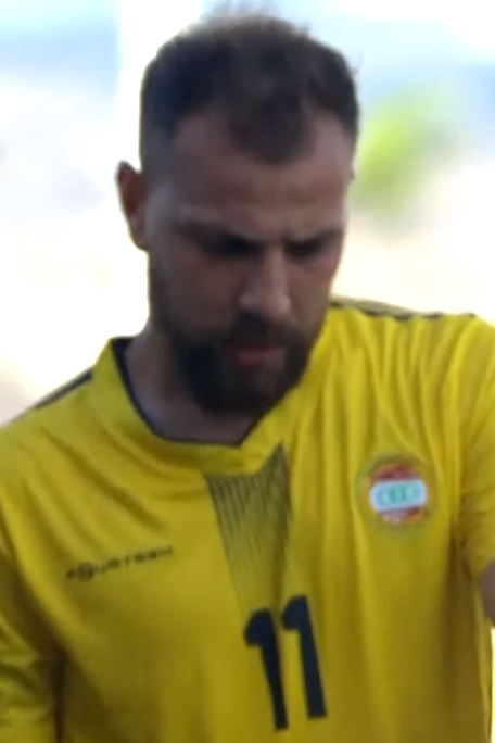 Ahmad Zreik with Ahed against Ansar in the 2019 Lebanese Super Cup final